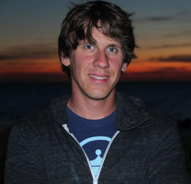 Dennis Crowley - taken August 24, 2011 in Cape Cod. Image by Jonathan Crowley.